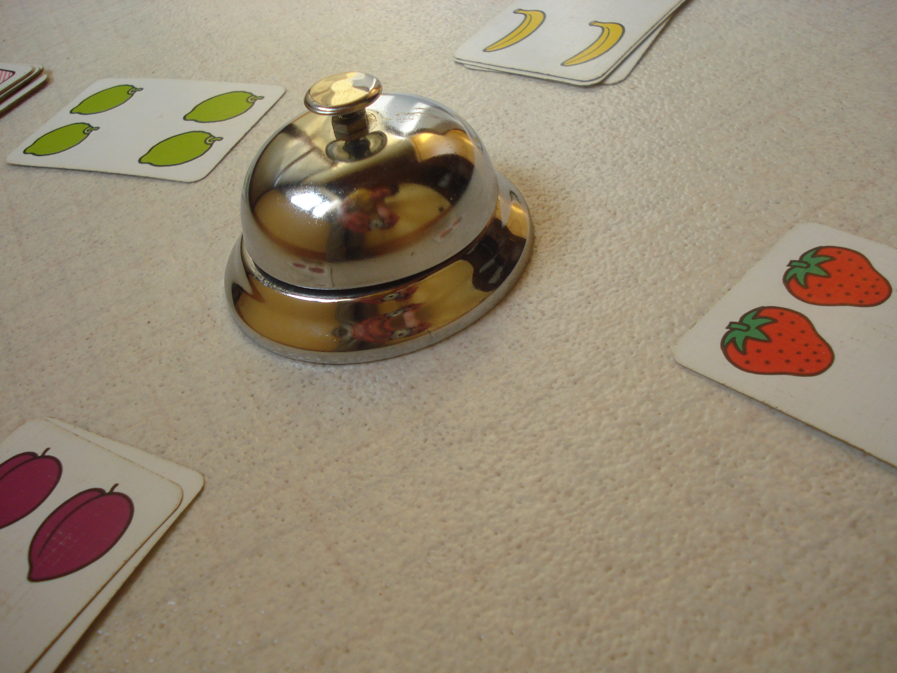 The card game Halli Galli